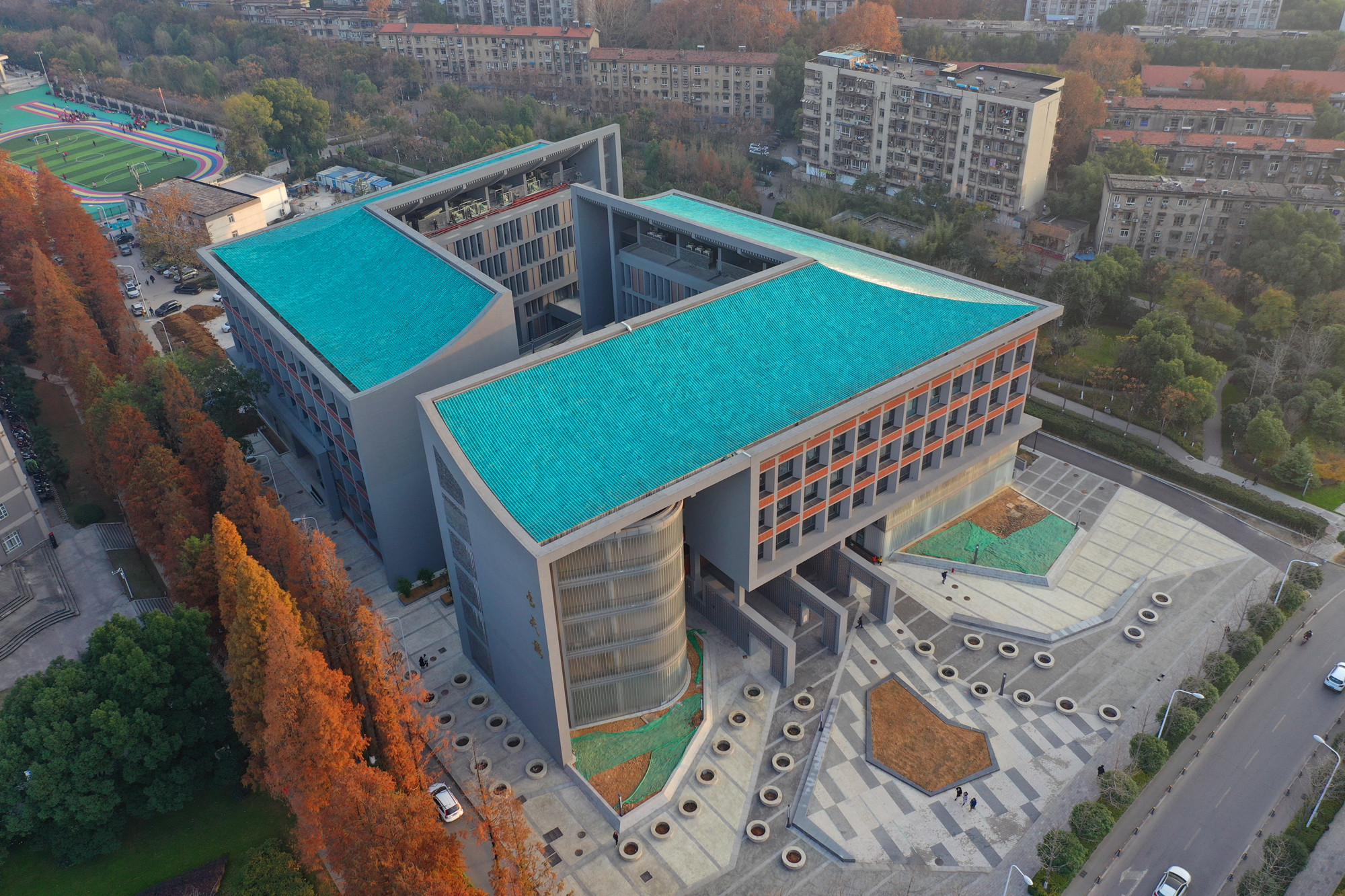 Wuhan University Institute of Advanced Studies